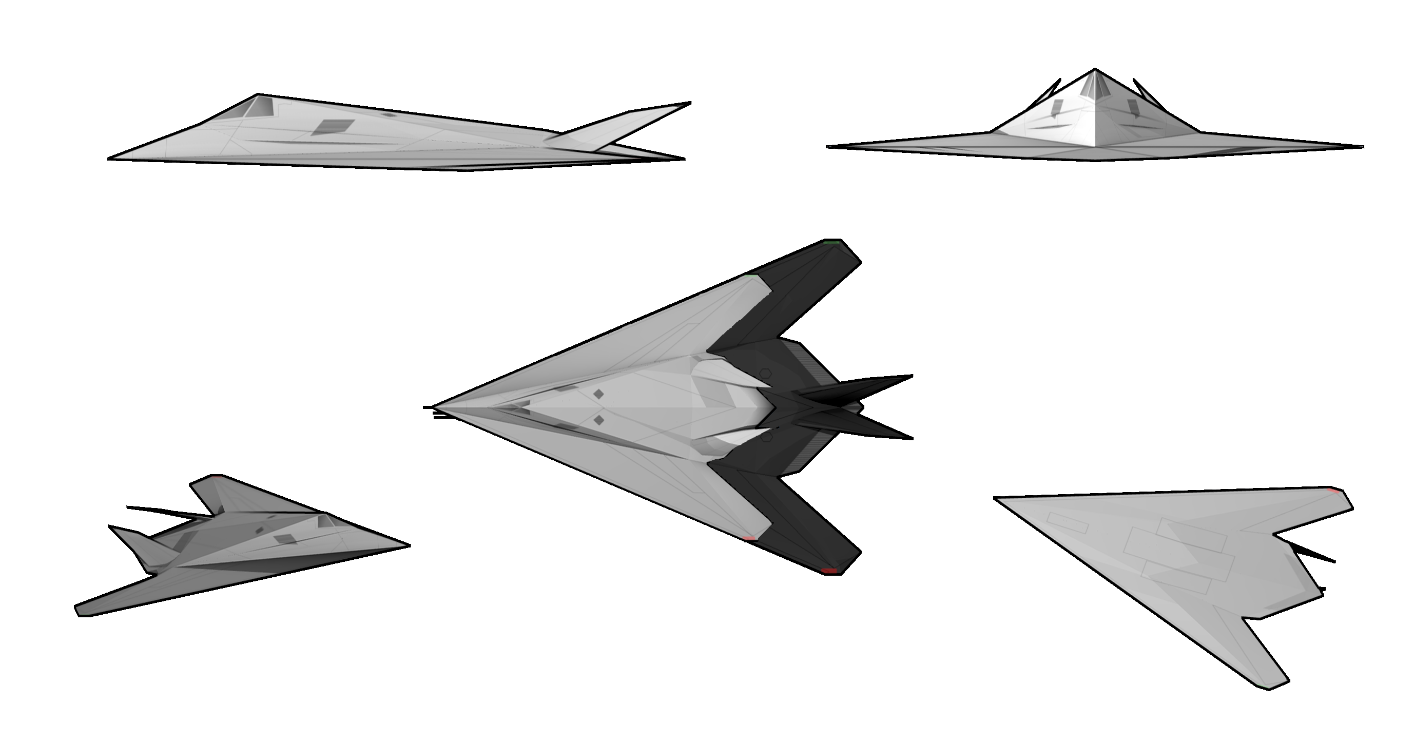 Several views of Lockheed's Have Blue and an overhead size comparison between it and the F-117